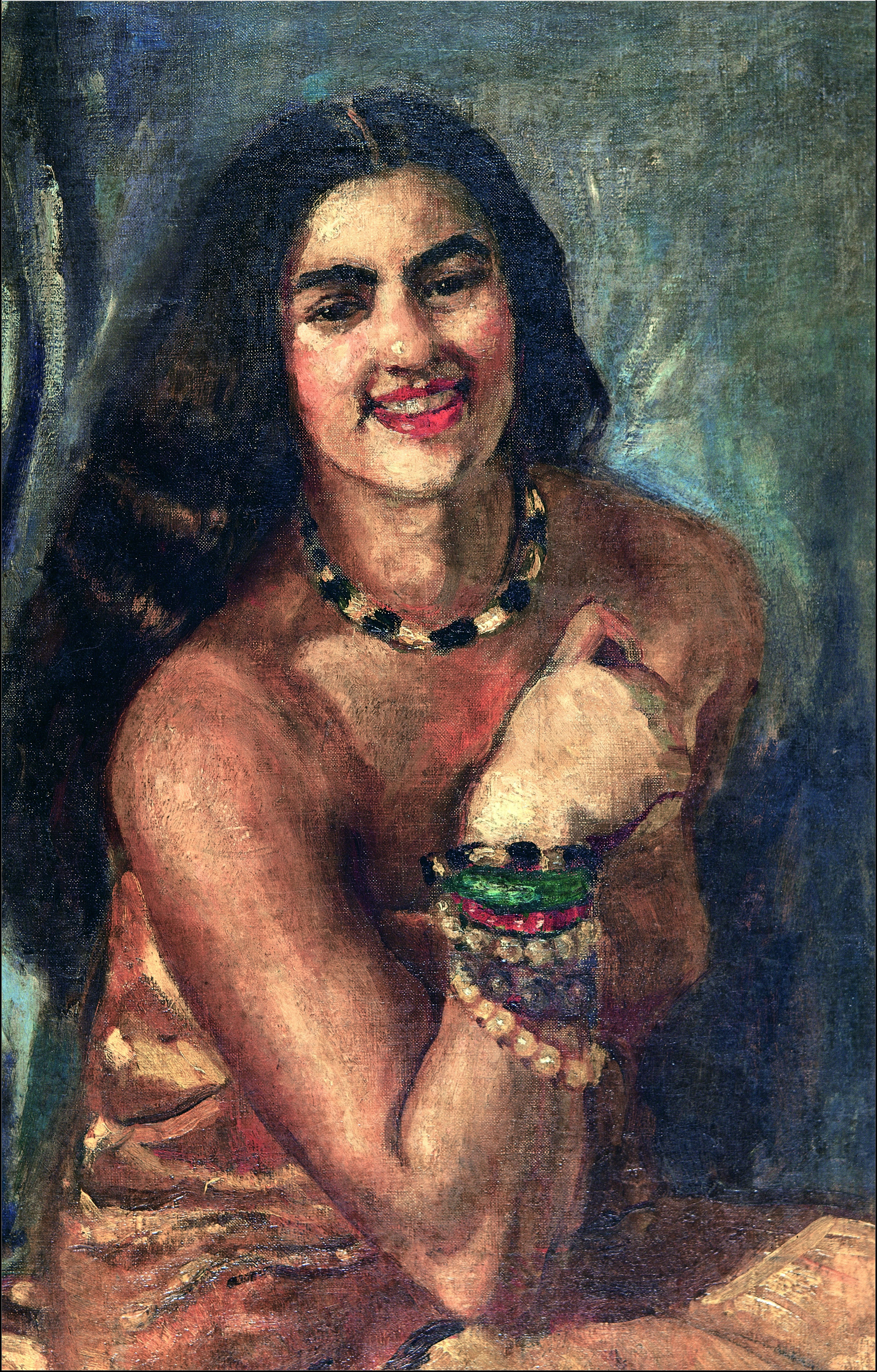 Self-portrait, by Amrita Sher-Gil. Oil on Canvas, 72 x 92.5 cm.